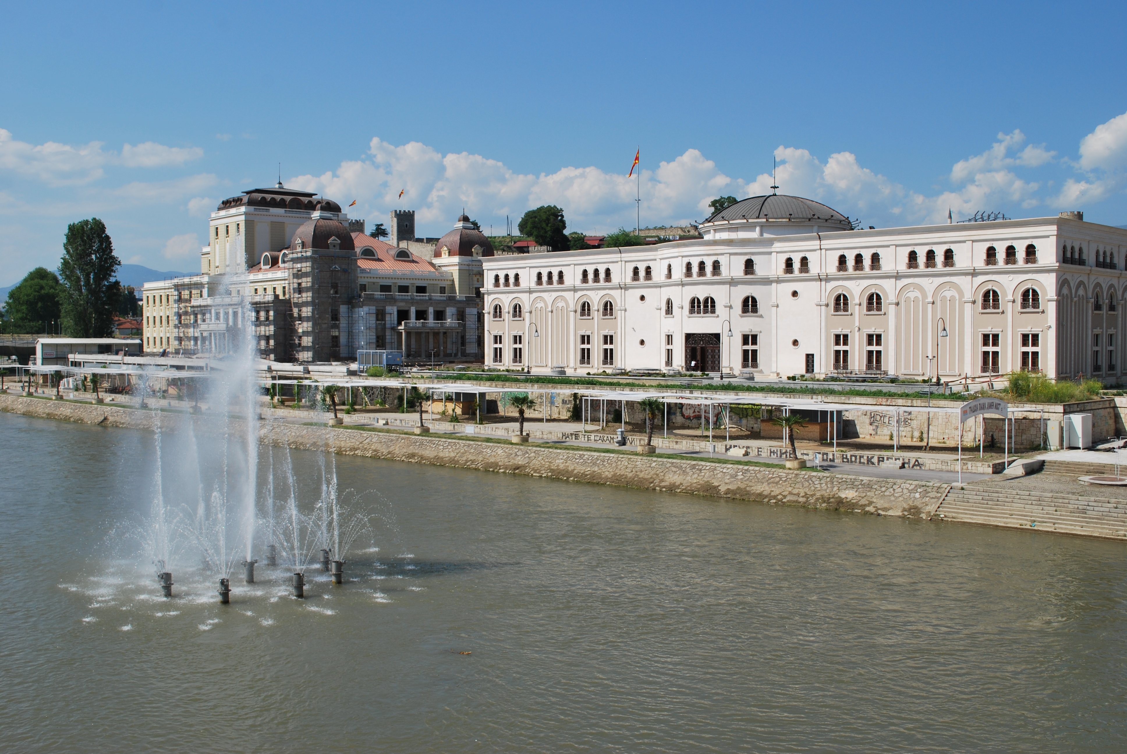 Museum of the Macedonian Struggle for sovereignity and independence - " Museum of VMRO and Museum of victims of communist regime" in Skopje, Macedonia.